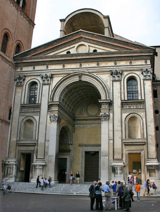 Mantova, Italy, Sant'Andrea